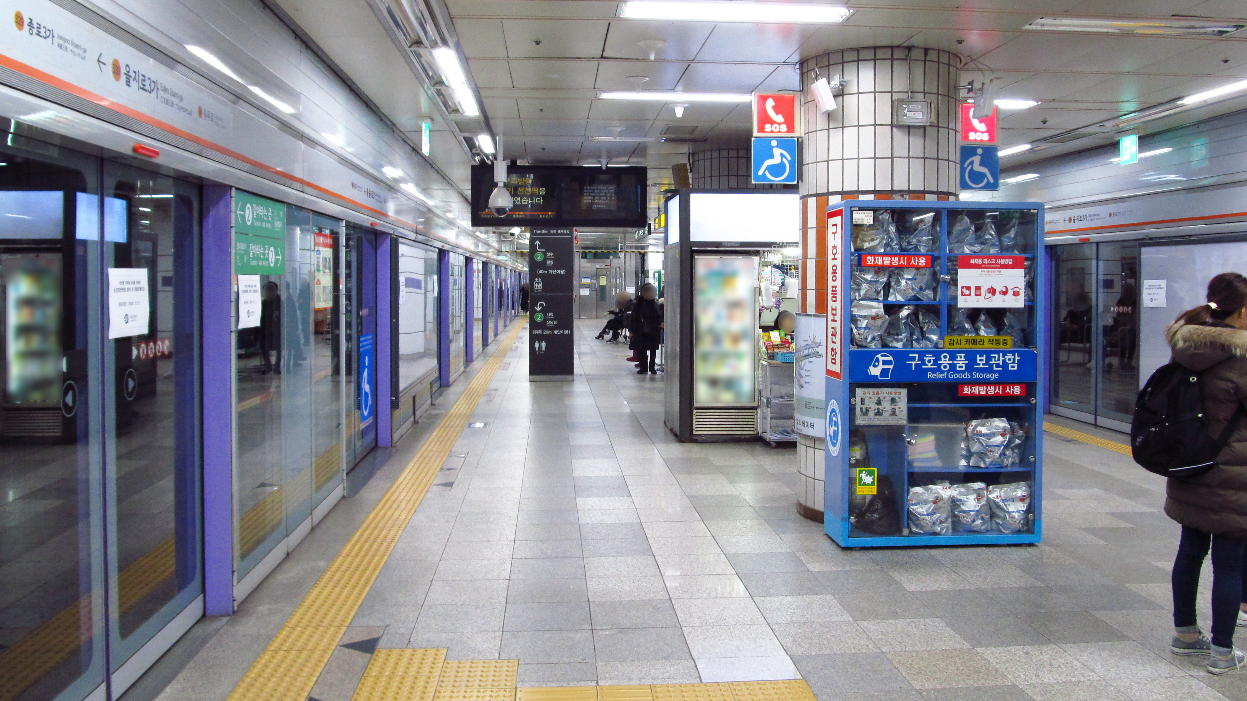 The platform at Euljiro 3-ga Station on Seoul Subway Line 3 in Jung-gu, Seoul, Republic of Korea(South Korea)